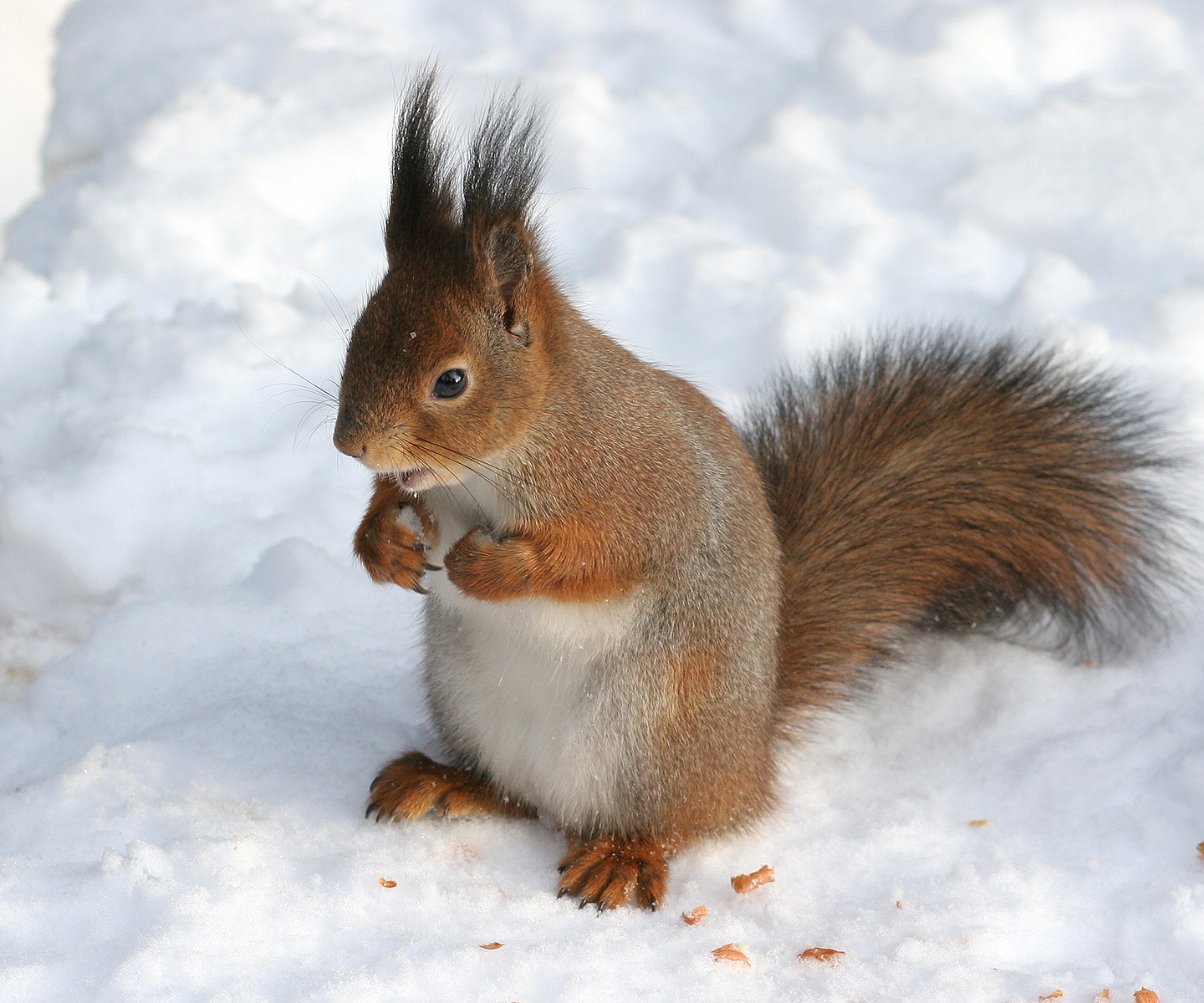 A red squirrel in the snow in Helsinki, Finland.